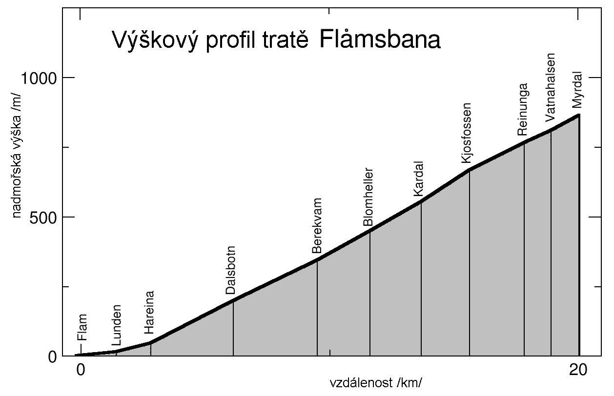 Flåmsbana